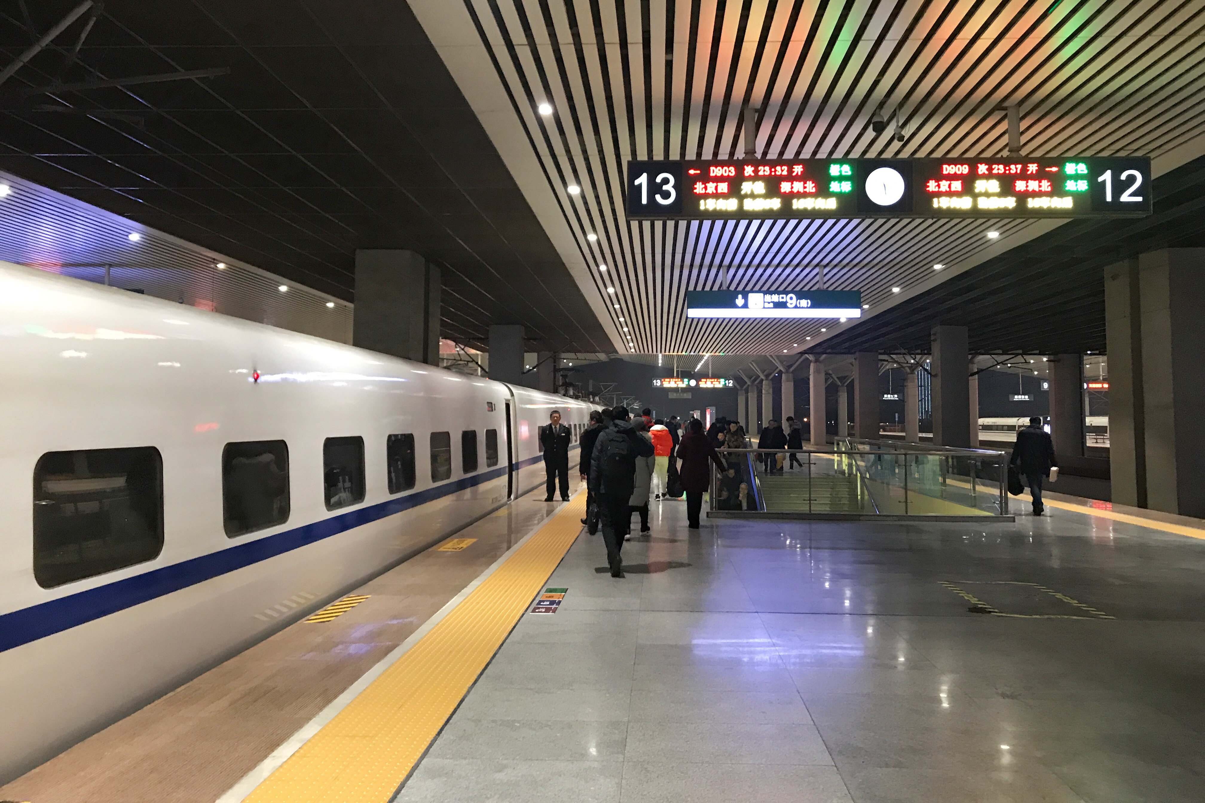 D903 (Beijingxi-Shenzhenbei) at Zhengzhoudong Railway Station